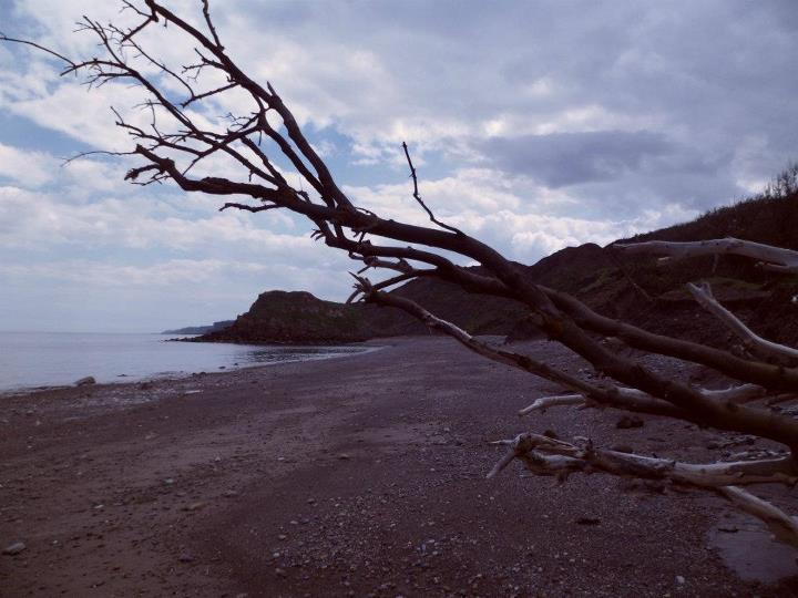 A view of Cornelian Bay, North Yorkshire and Knipe Point